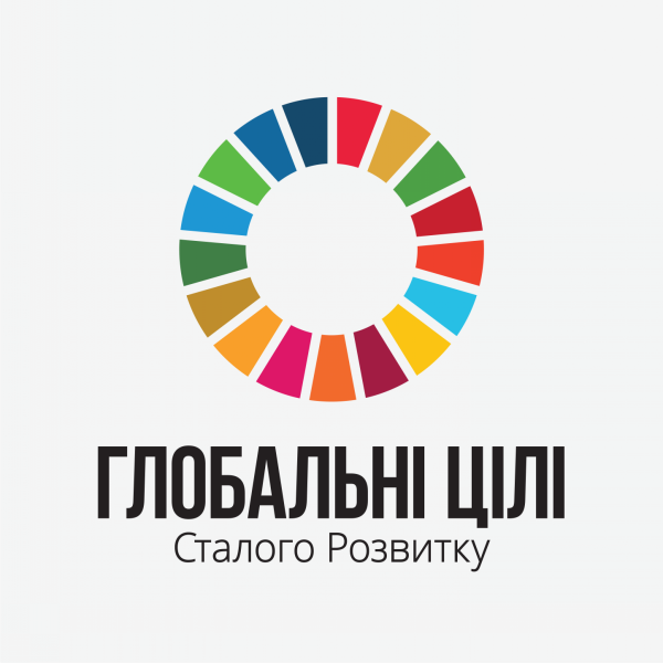 Sustainable Development Goals in Ukrainian